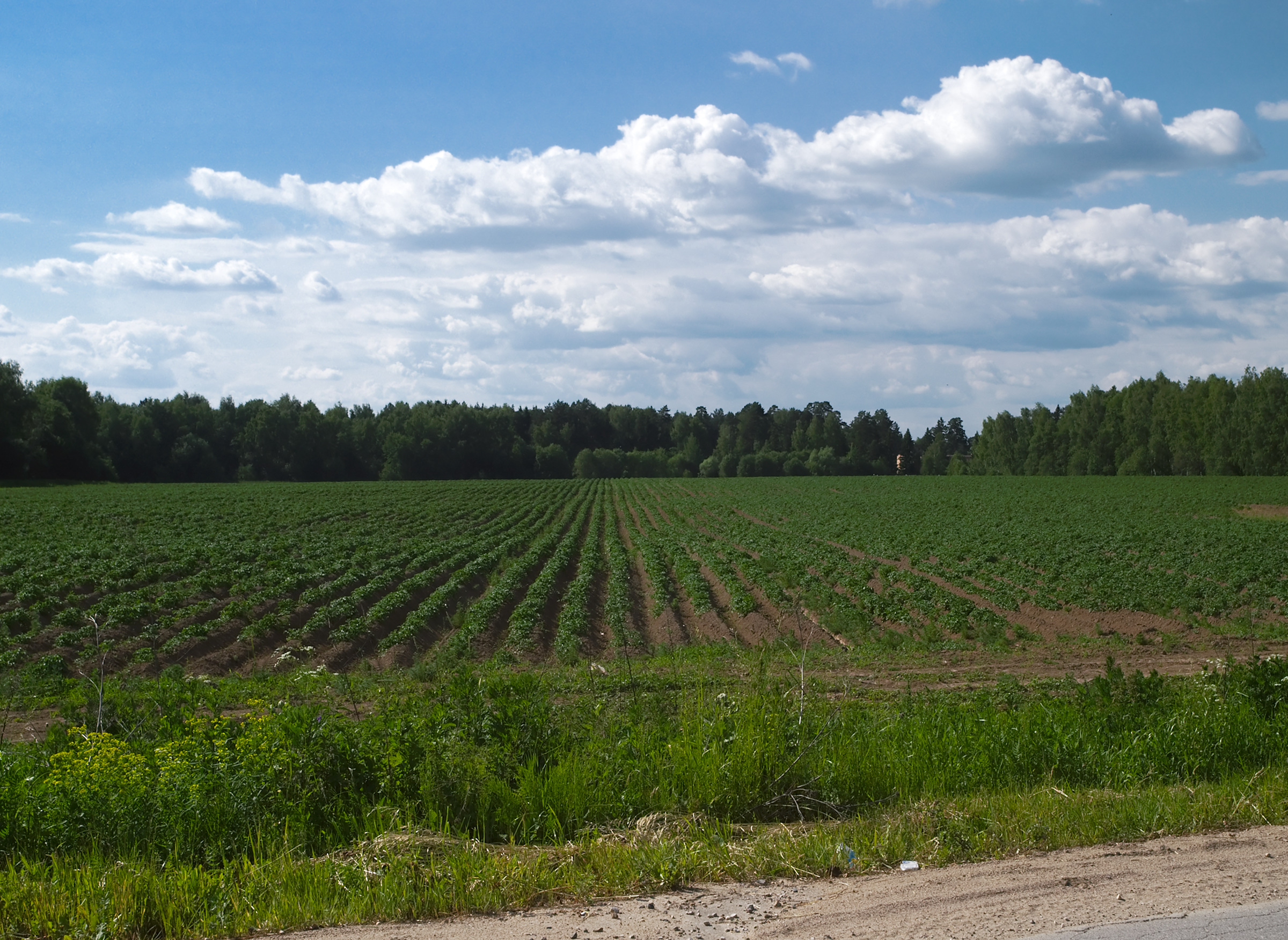 The fields around Panskoye and/or Karizha, villages just NW of Maloyaroslavets.